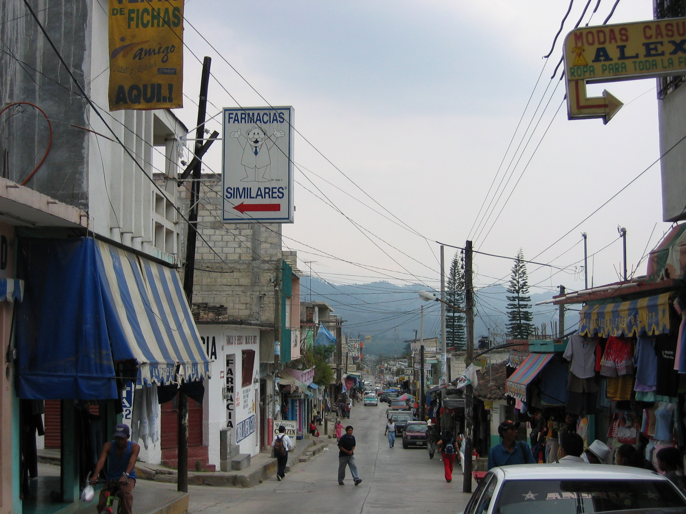 Photo taken by Poppy in March 2005